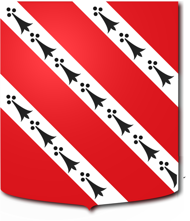 Acotanto shield